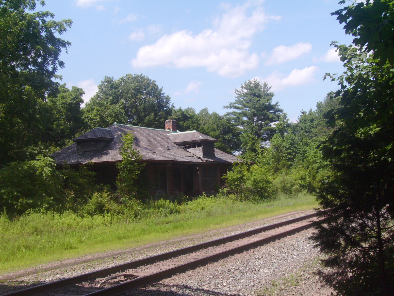 The former Belle Mead Station on the inactive West Trenton Line. The station was built in 1913 and sits abandoned.